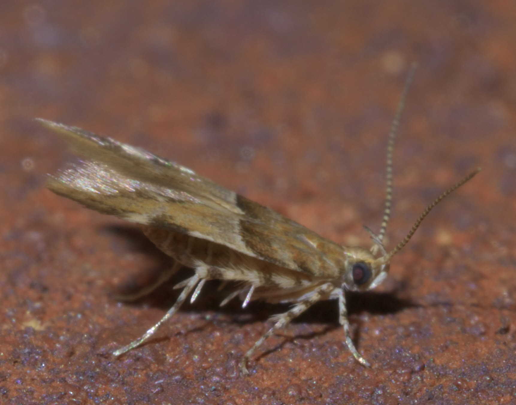 Theisoa constrictella, Hodges #1722, Size: 4.5 mm, ID Confidence: 87